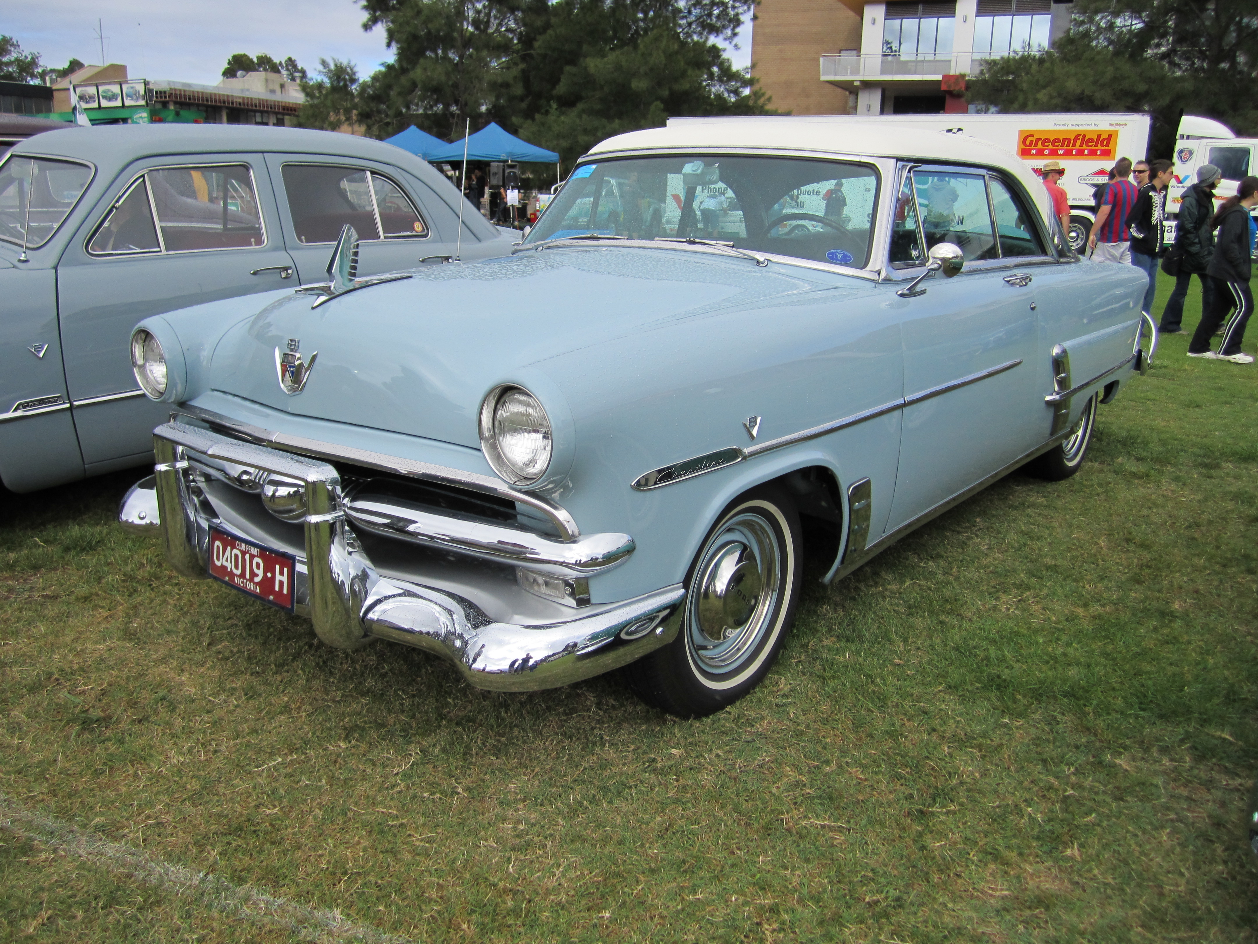 Revised grille for 1953 Available in Mainline, Customline & Crestline Sedans also Sunliner Convertible, Country Squire Wagon & Victoria Hardtop. V8 Customline Sedan & Mainline Utility Produced in Australia. Engine; 215 6 cyl OHV or 110hp 239 Flathead V8